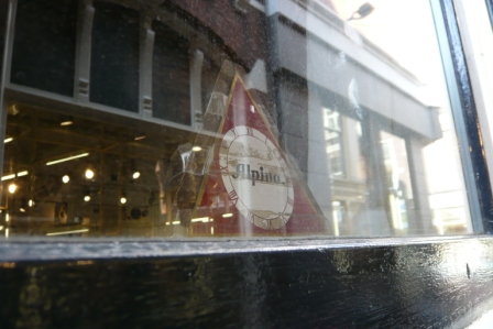 Alpina triangle, used as an "all clear" sign by the Ten Boom family by placing it in the window of their watch shop on the Schoutensteeg, Haarlem, the Netherlands. Now on permanent display in the museum.